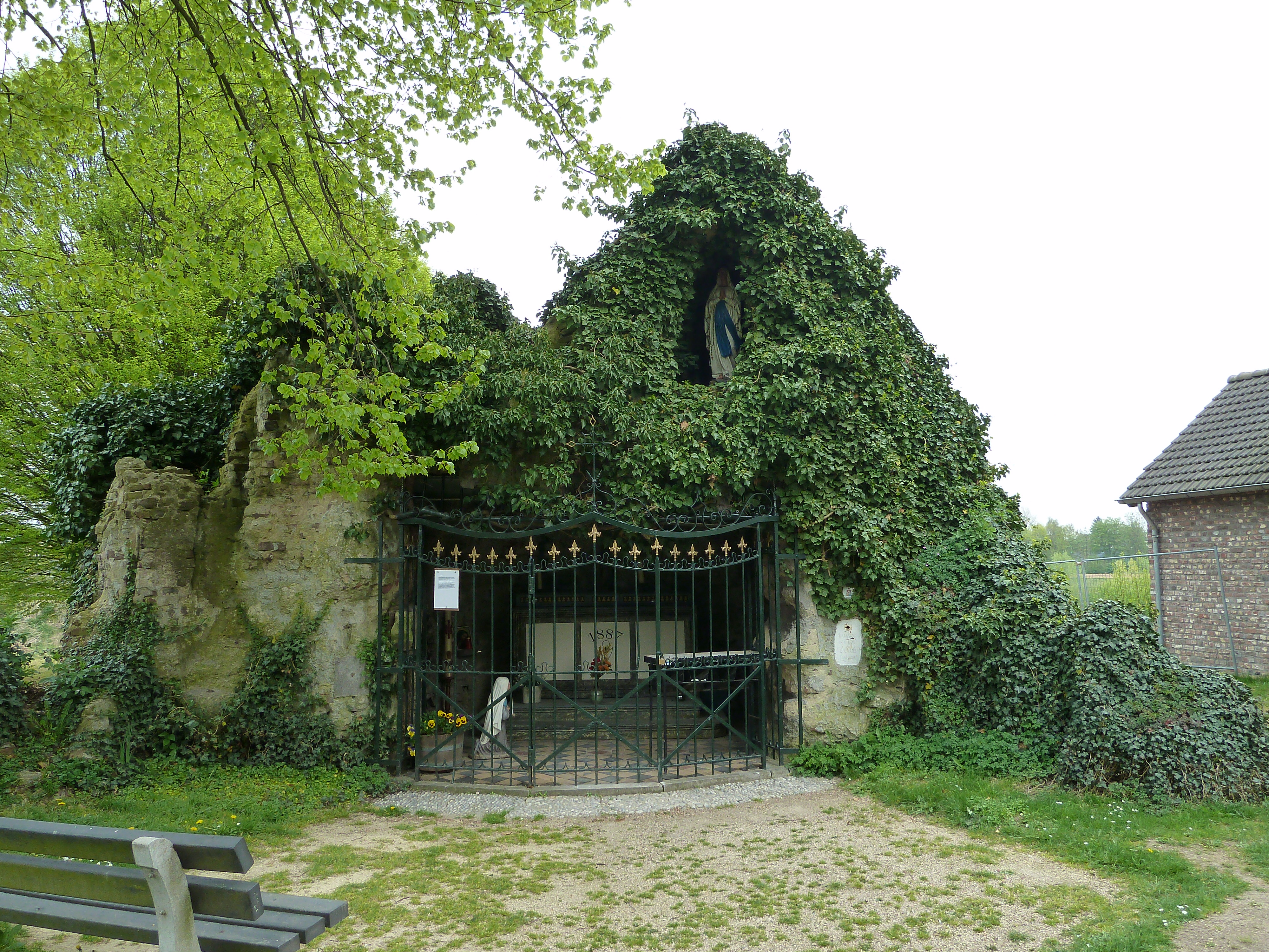 Sint-Clemenskerk, Brunssum, Limburg, the Netherlands